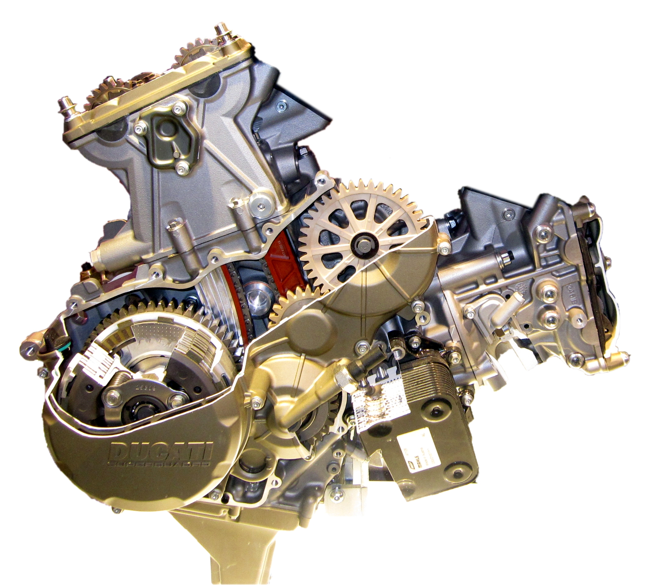 The Ducati Superquadro, the Ducati 1199 Panigale engine. Picture taken at the 2011 EICMA Milan Motorcycle show. We can see the oil-bath clutch anche the new chain replacing the olld belts.